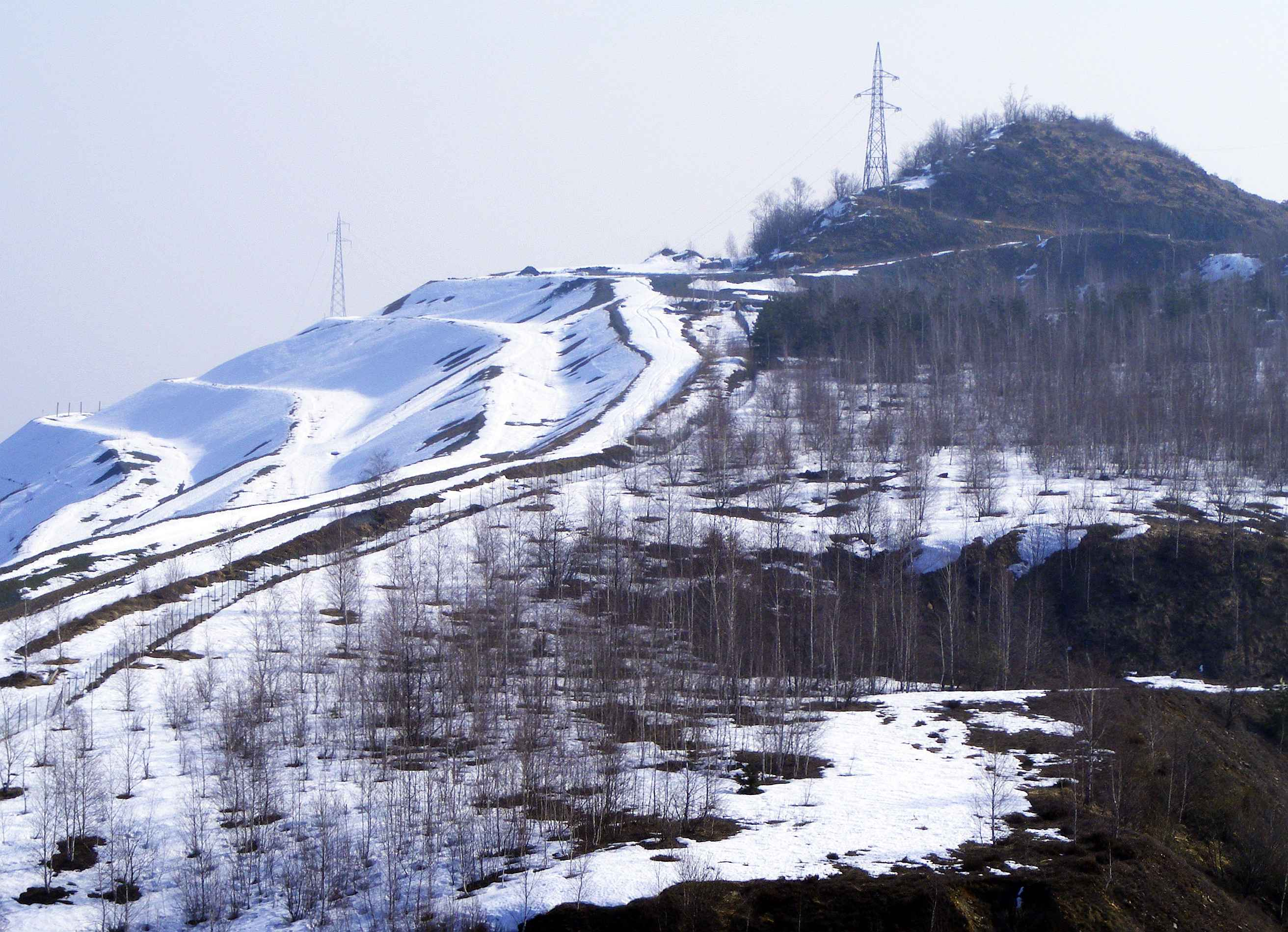 Asbestos quarry of Balangero (TO, Italy): old gravel dump towards Fandaglia creek